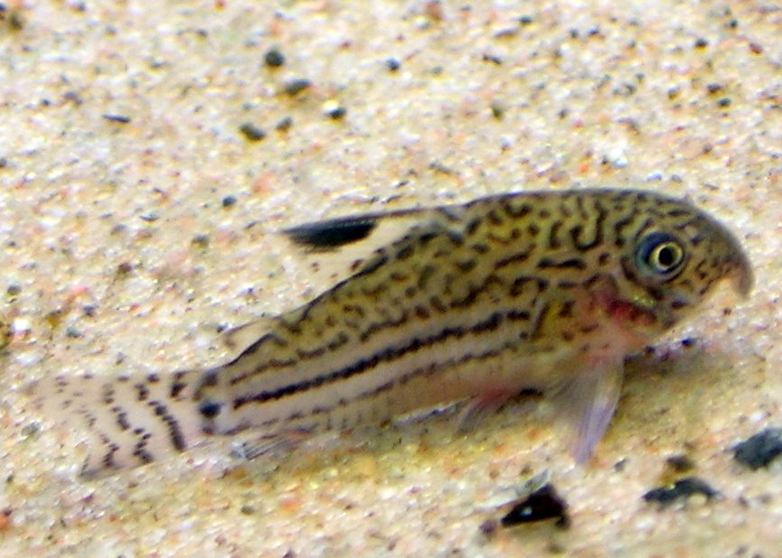 Corydoras trilineatus